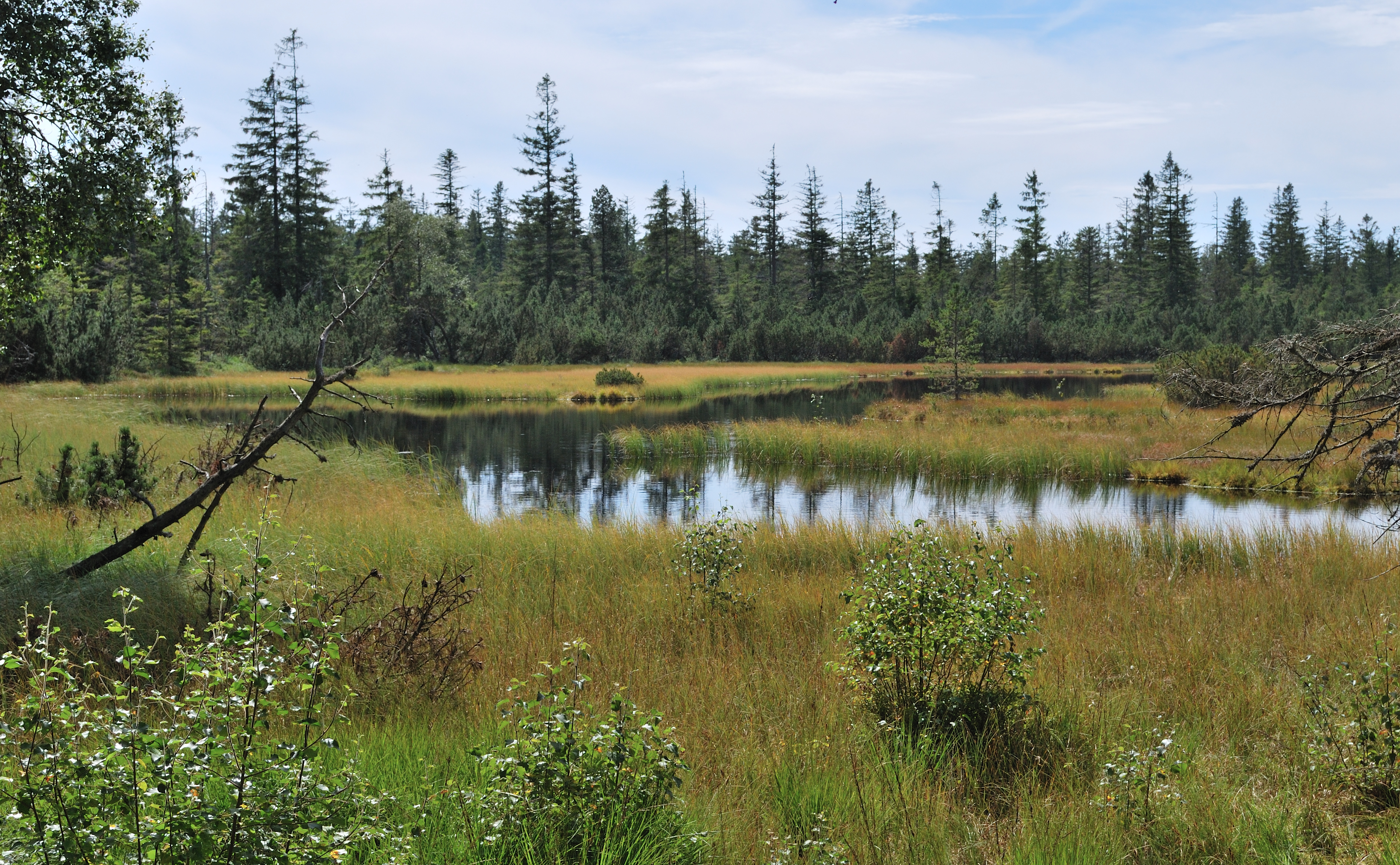 The Great Hohlohsee west of Kaltenbronn in northern Black Forest in Germany.